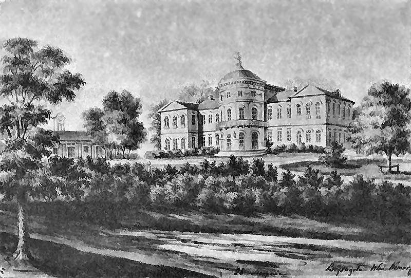 A manor in Baisogala, Lithuania in the 19th century